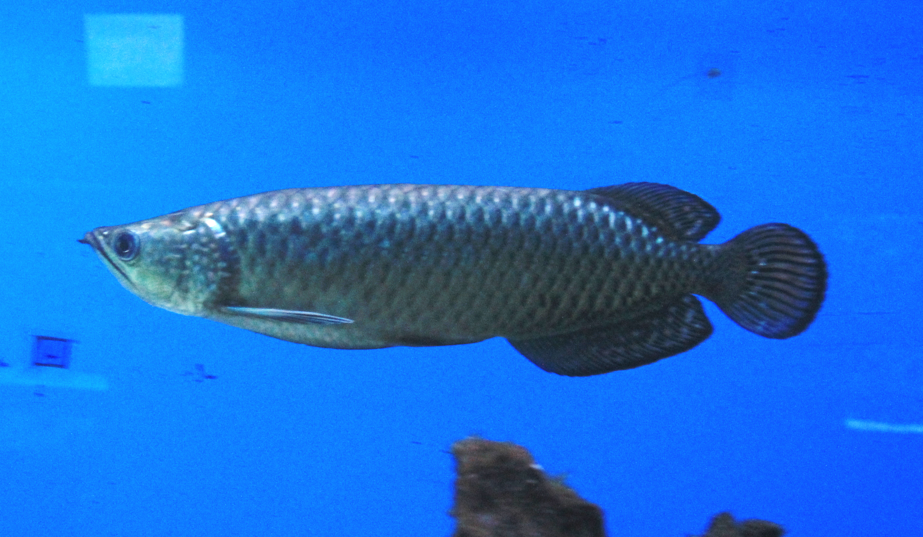 Fish Gulf saratoga Scleropages jardinii in Prague sea aquarium, Czech Republic